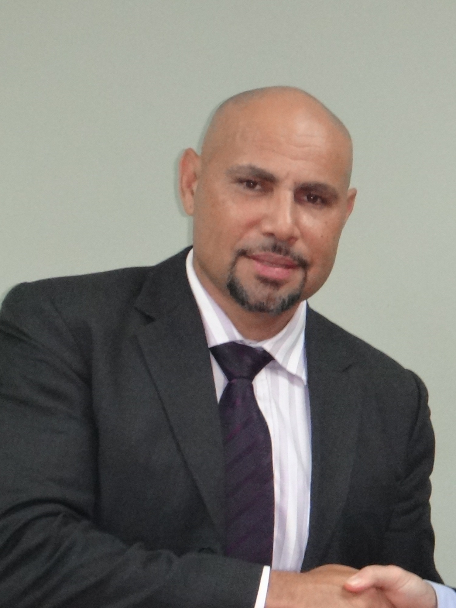 Parliamentary Secretary Thistlethwaite meets PNG Minister for National Planning Charles Abel